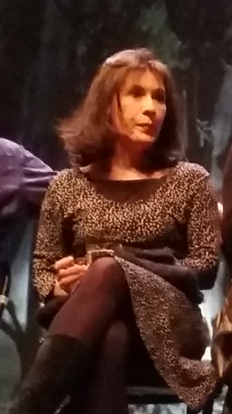 A post-show meeting of the actors/actresses that played in the Les diaboliques play photographed in Montreal, Quebec, Canada at the Rideau-Vert theatre.